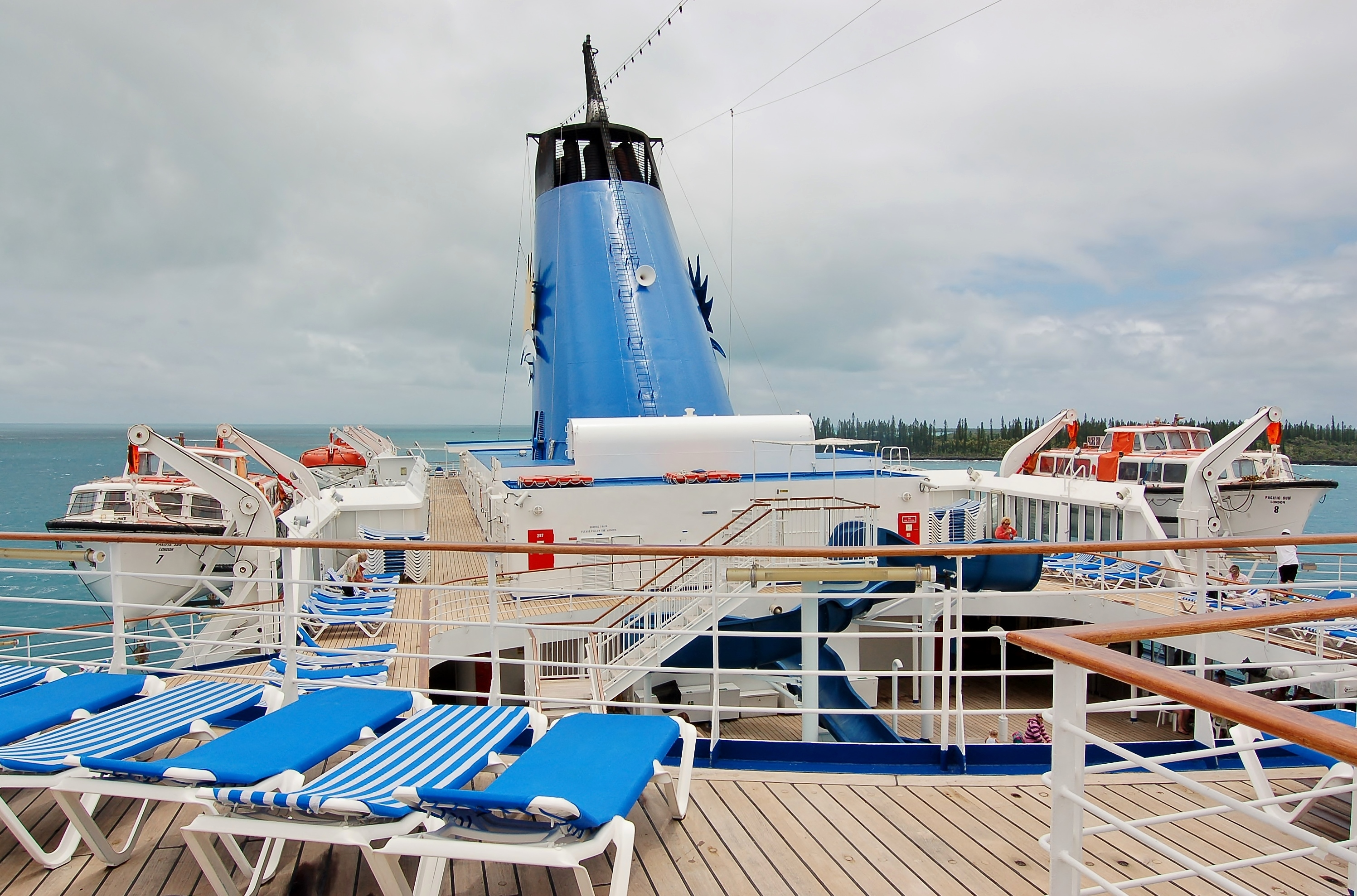 The Pacific Sun riding her anchor at the Isle of Pines, New Caledonia.